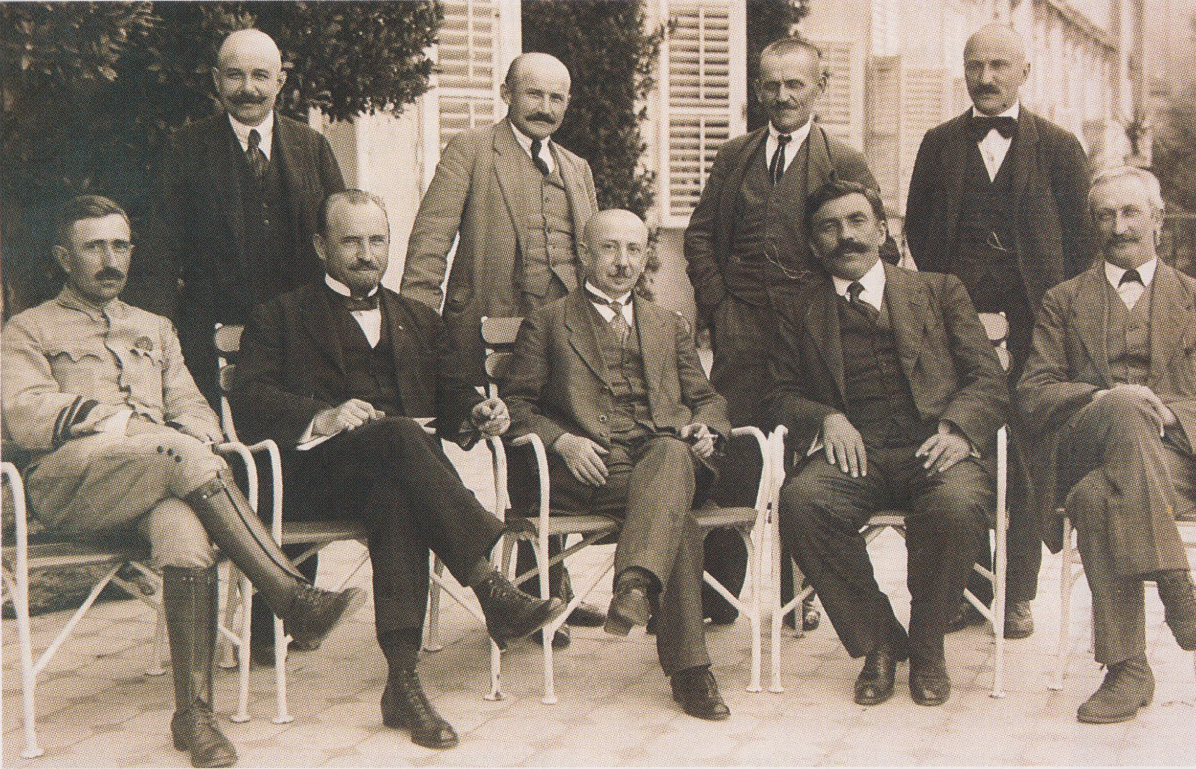 Cabinet of Hungarian Prime Minister Gyula Peidl in August 1919